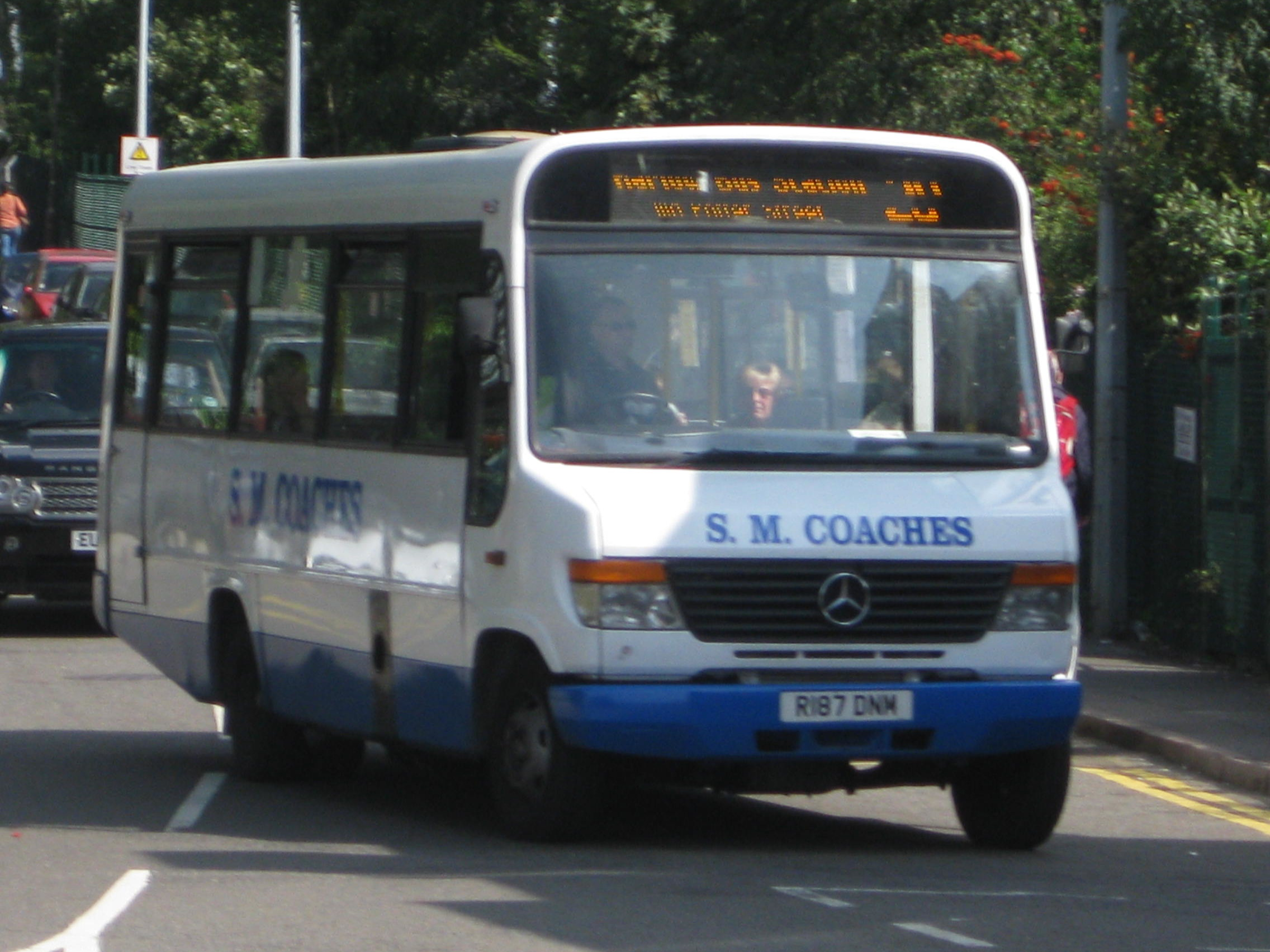 S.M. Coaches R187DNM on route 20 at Epping Station. This bus has previously served with Arriva Shires & Essex, Poynters Coaches of Wye, TWH Bus & Coach and Lea Valley Buses.